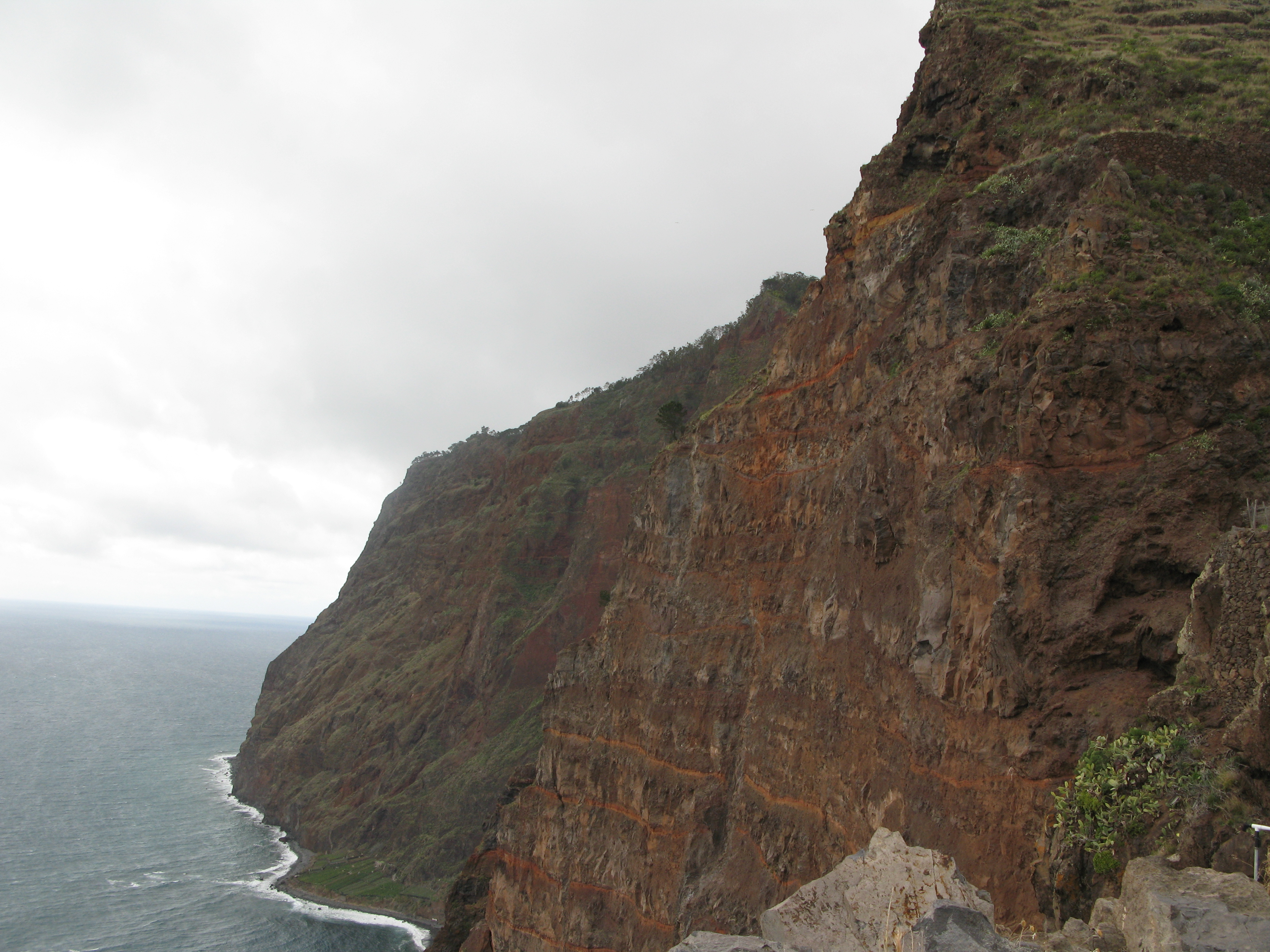 View towards west from Cabo Girão - Madeira